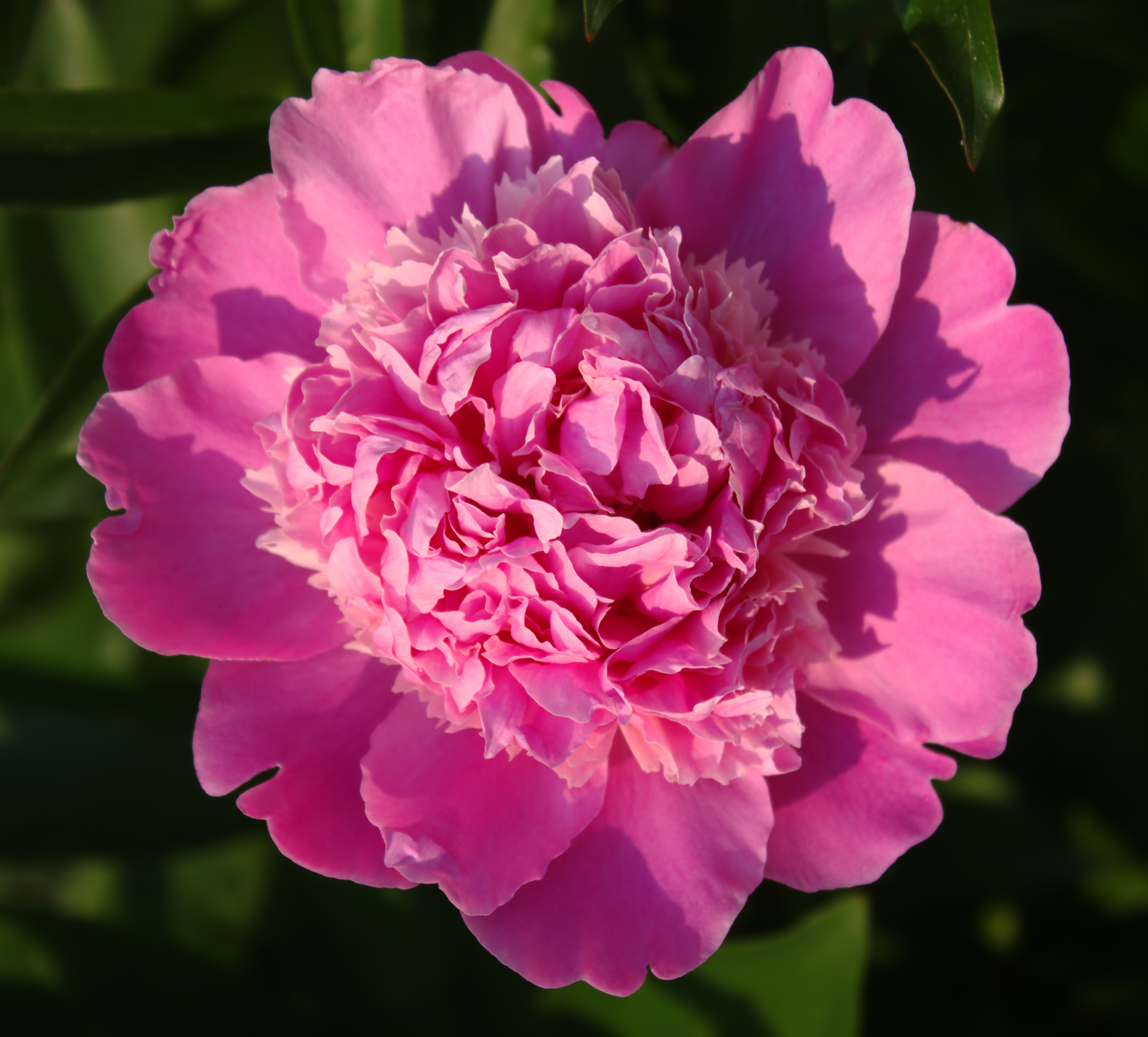 A close up of a Peony flower from the top.